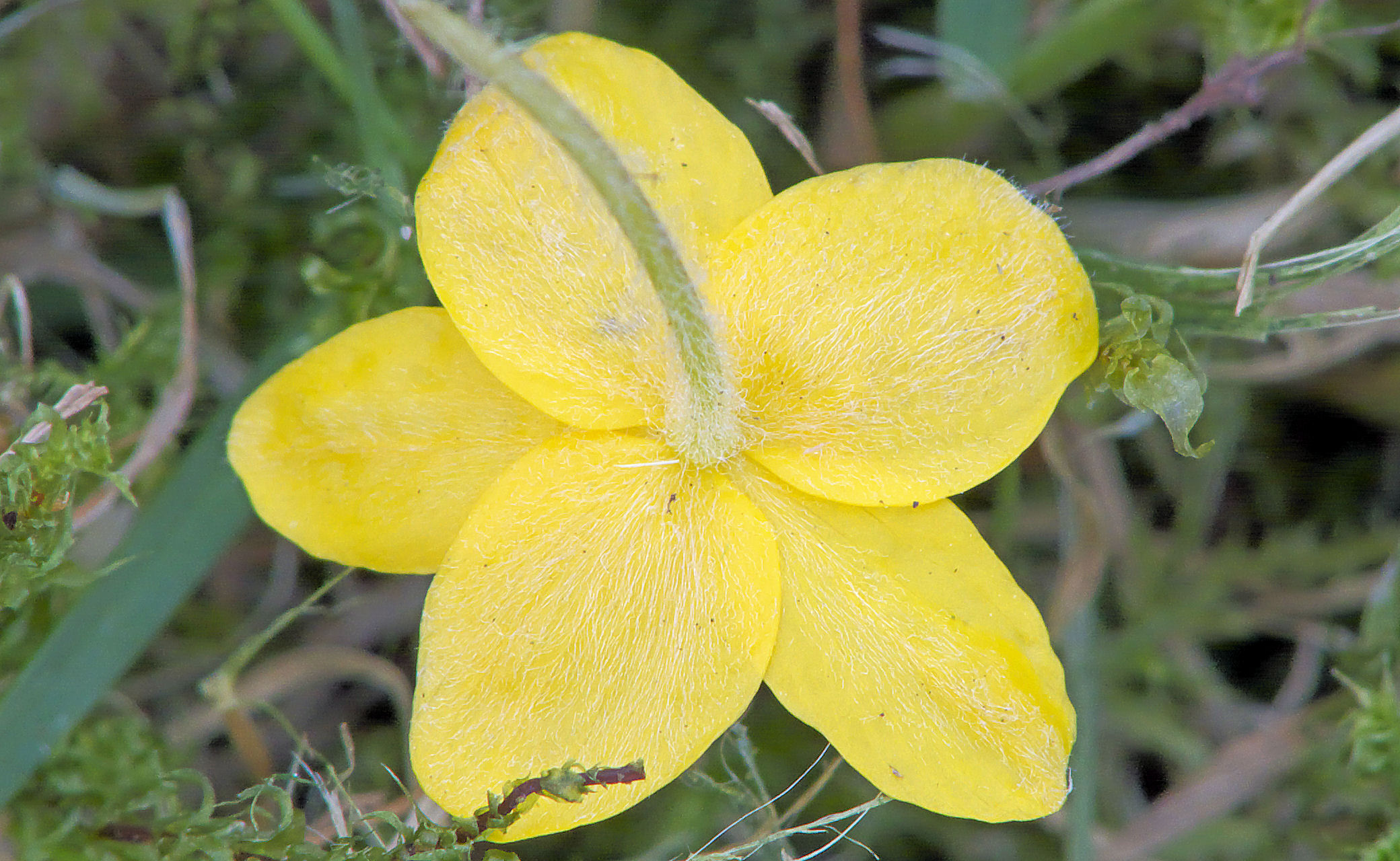 Anemone ranunculoides backside flower